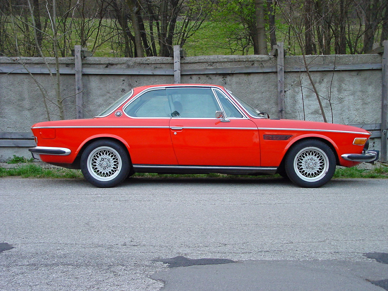 BMW E9 3.0CSi side